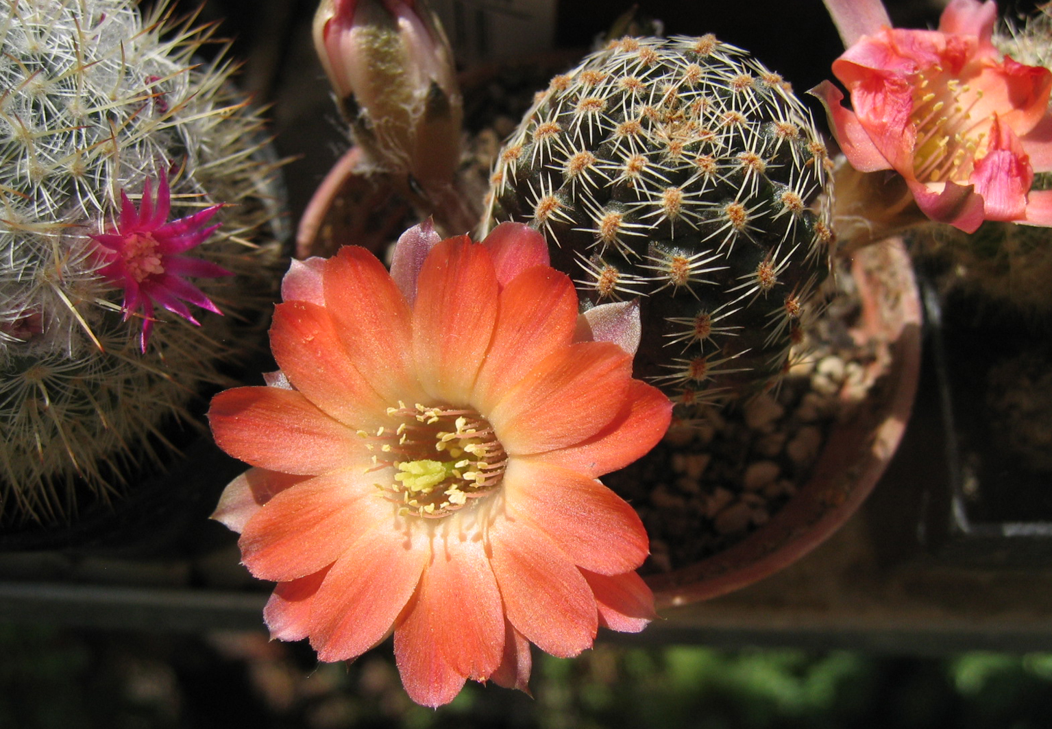 Rebutia steinmannii (Mediolobivia eucaliptana) with blossom; own collection of cactus, Hockenheim, Germany